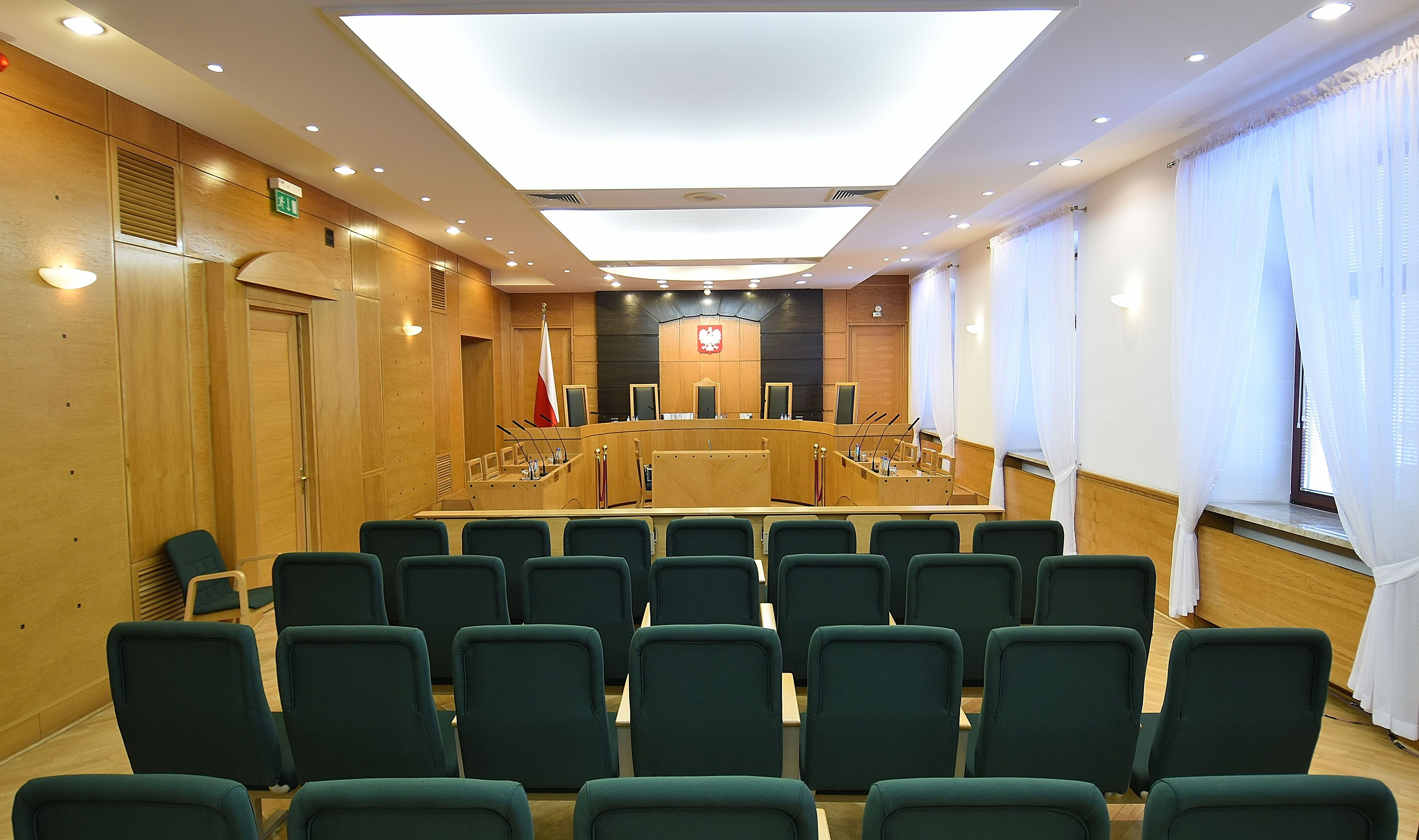 Small courtroom of the Polish Constitutional Tribunal